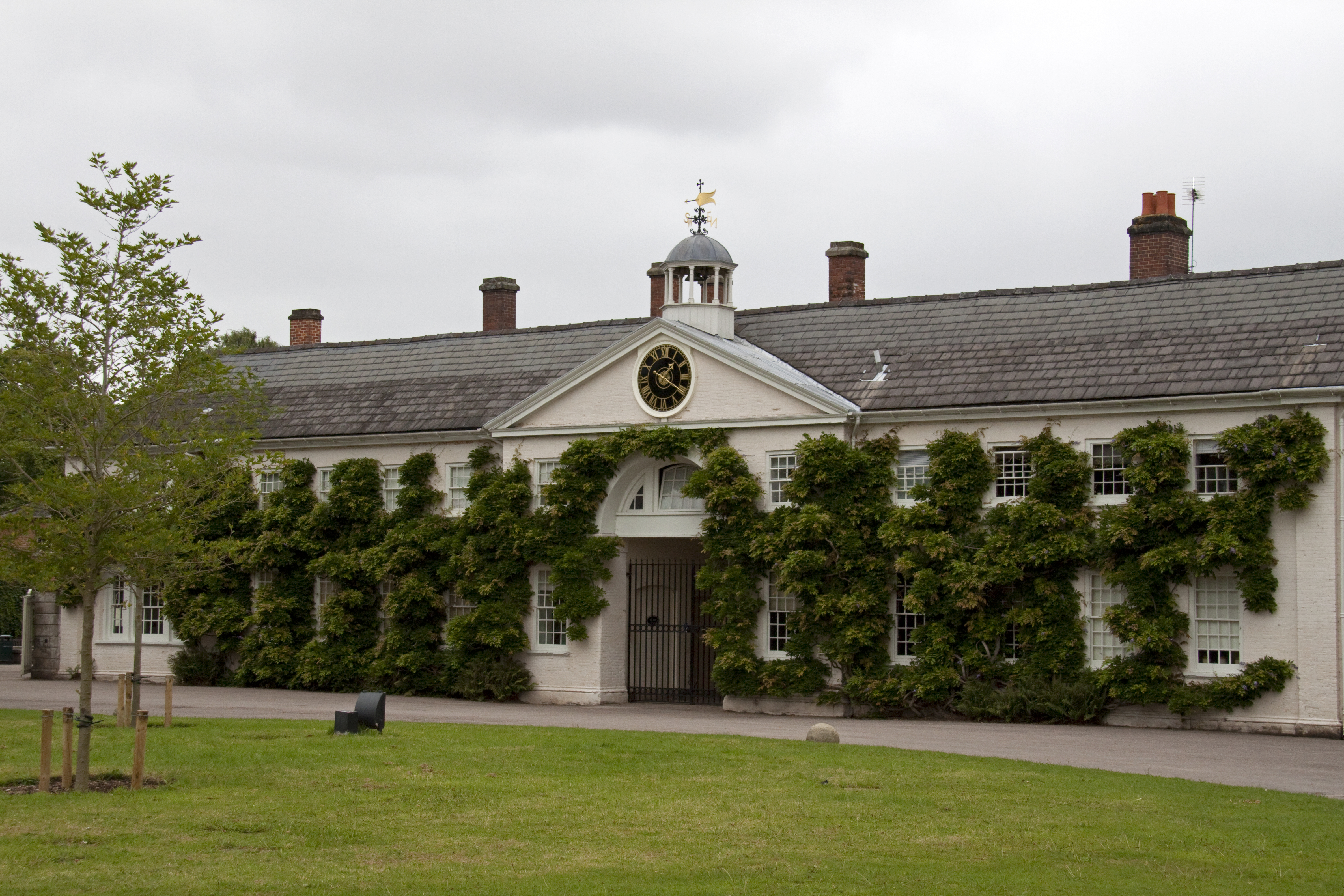 Shugborough 5